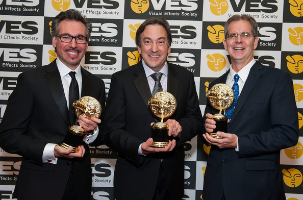 Lino DiSalvo with Peter Del Vecho and Chris Buck at the VES Awards